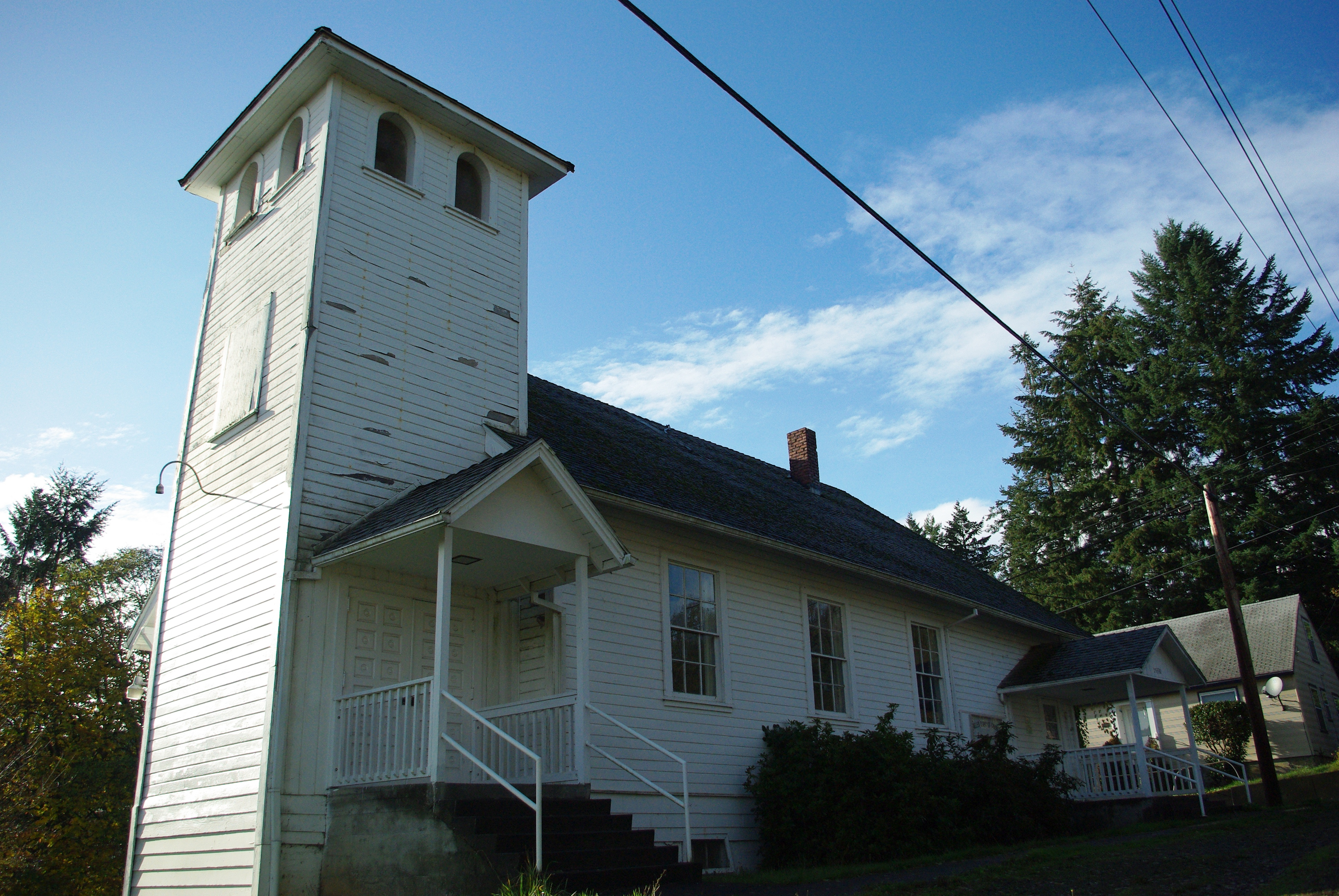 Church (Valley Baptist Church) in Cherry Grove, Washington County, Oregon